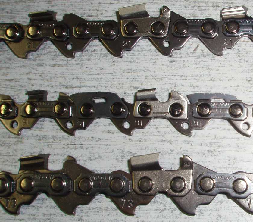 Oregon chainsaws .325 in., 3/8 in.